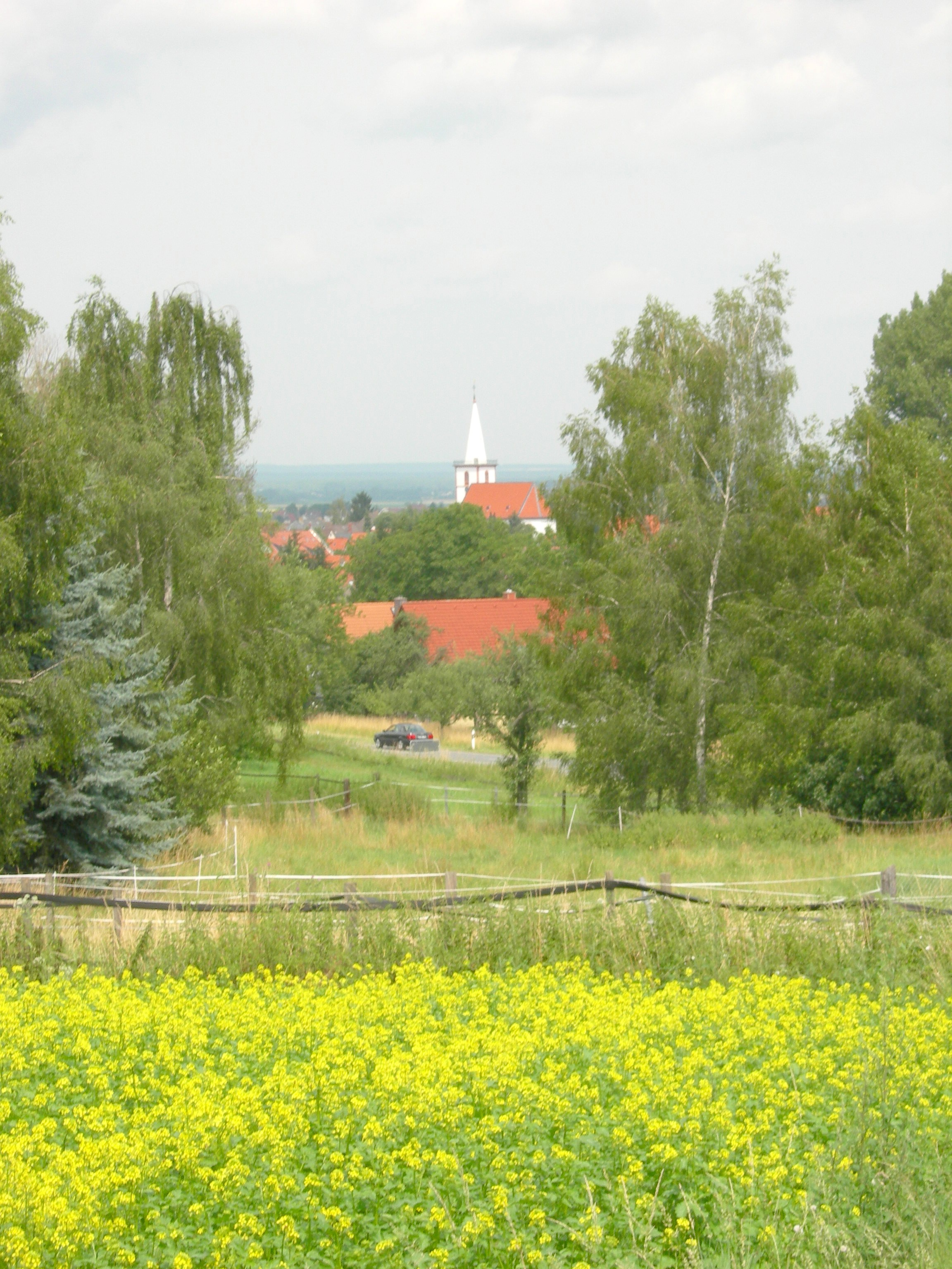 Otzberg (Hesse), Lengfeld